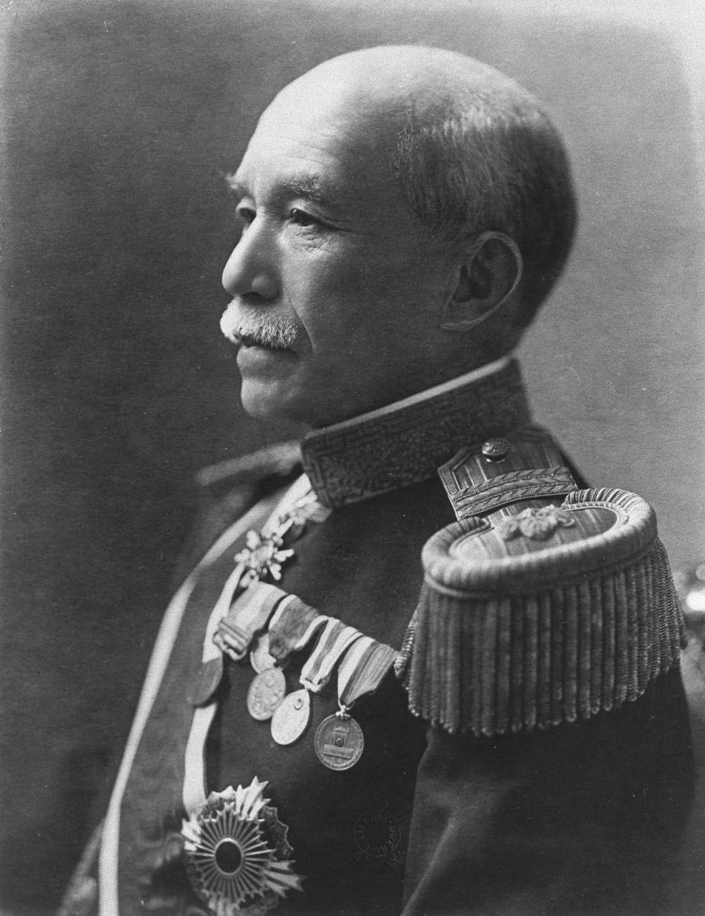 Portrait of Kaneko Kentaro (金子堅太郎, 1853 – 1942)